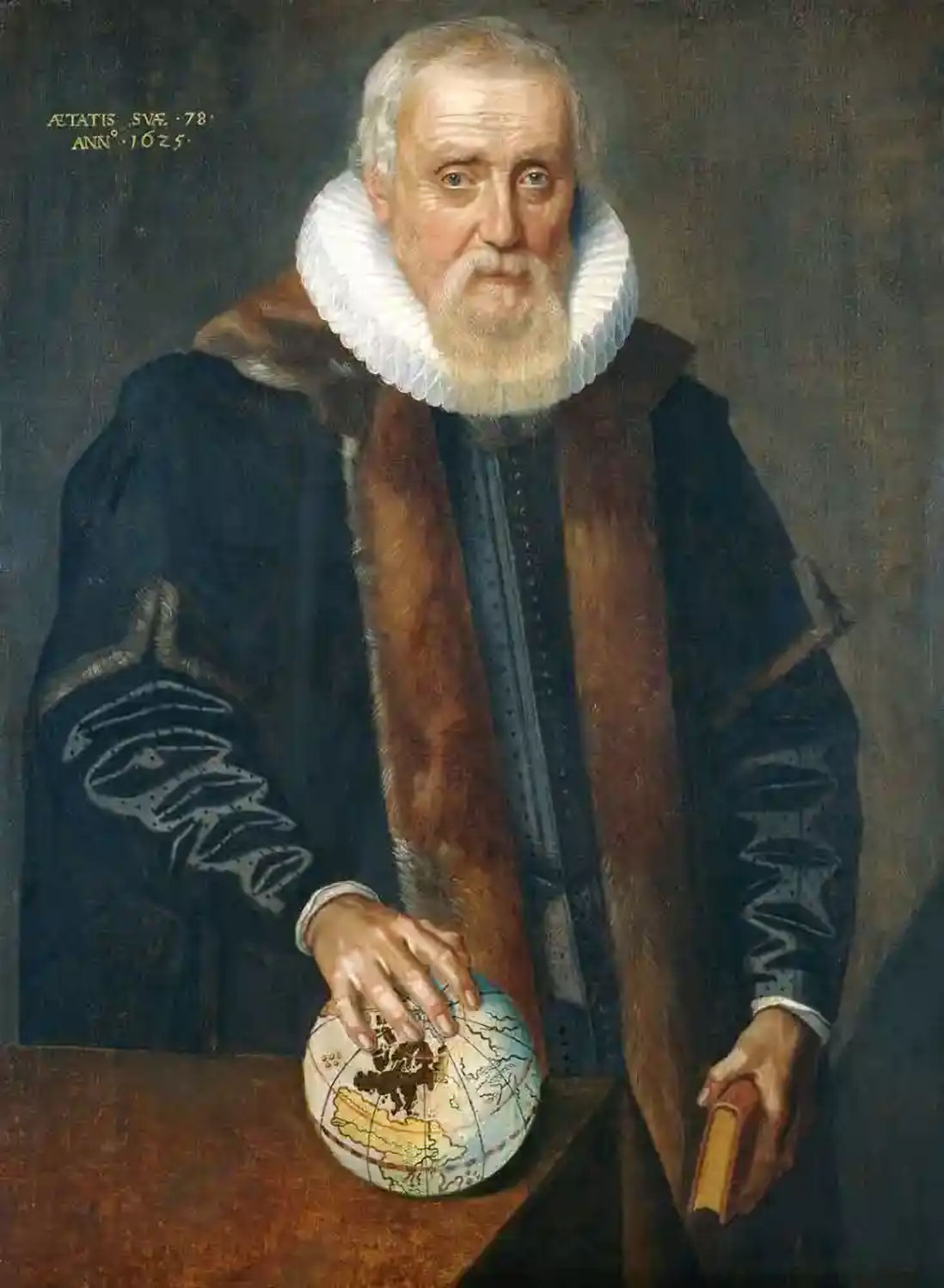 Ubbo Emmius (1547-1625) first rector magnificus at the University of Groningen (Netherlands)